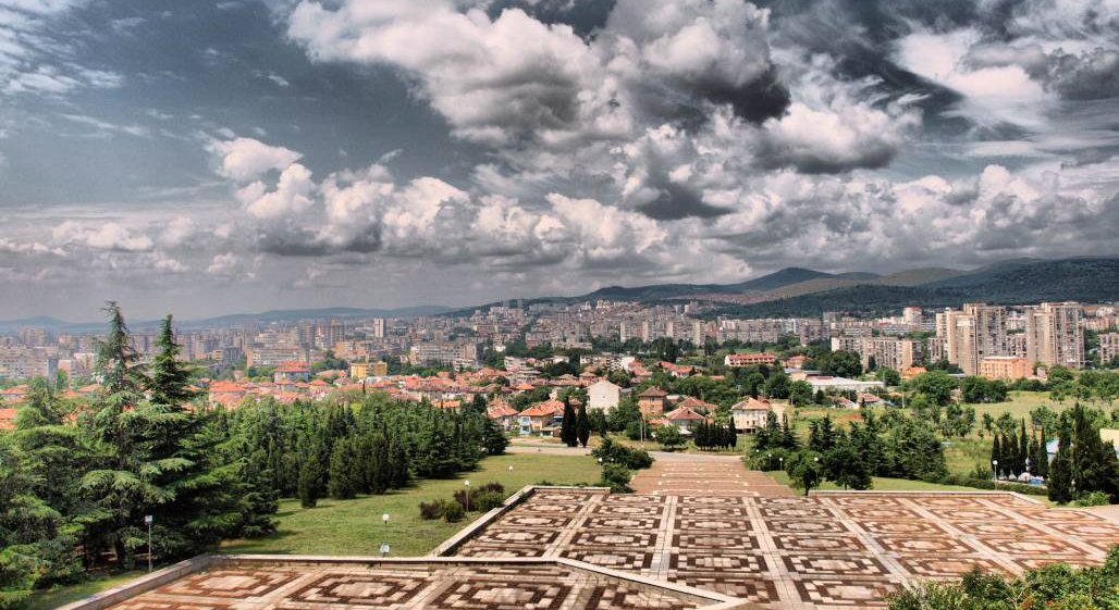 View of Stara Zagora from the Samarsko Zname monument